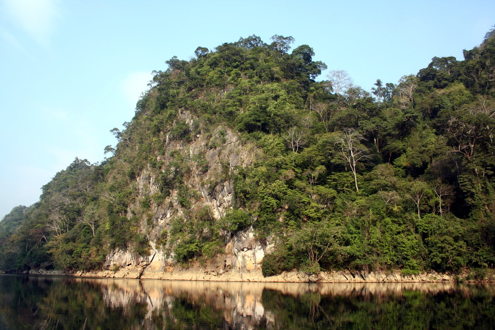 Photograph of Karst cliffs on Ba Bê Lake in Ba Bê National Park in Bắc Kạn Province, Northeast Vietnam during the dry season taken by Rolf Müller